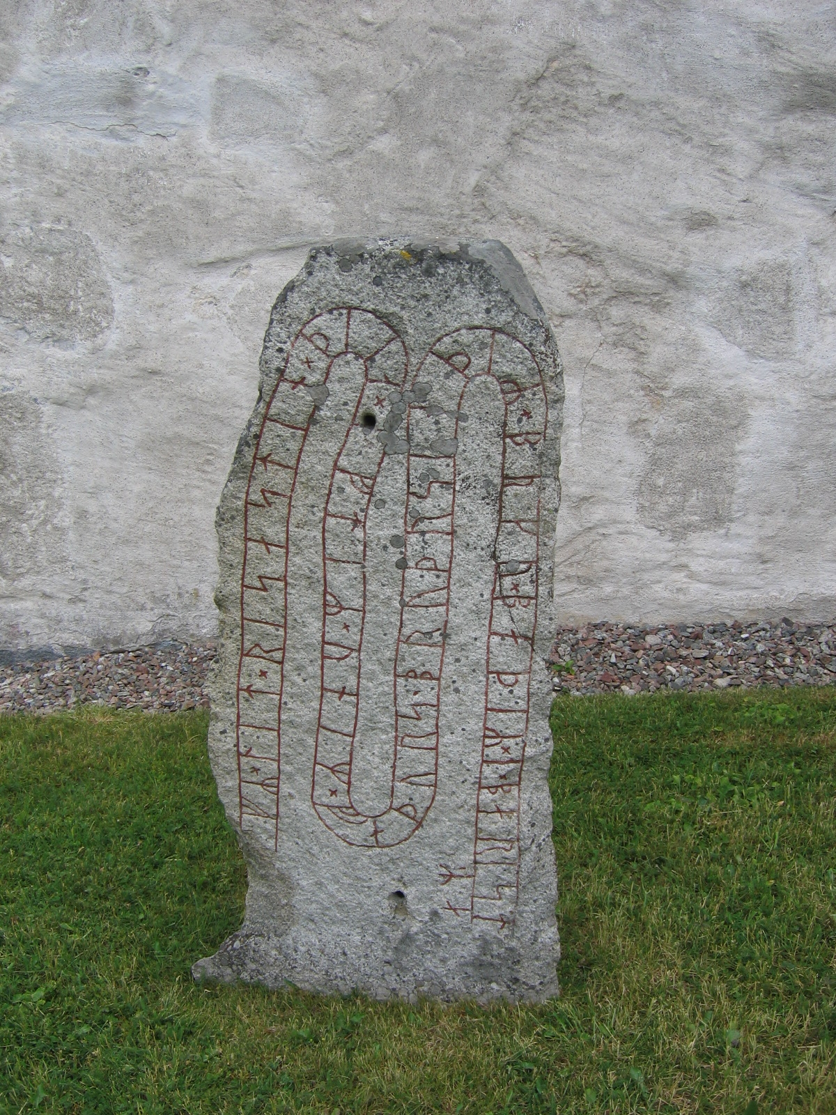 Runestone U 336 at the Church of Orkesta in Vallentuna municipality.